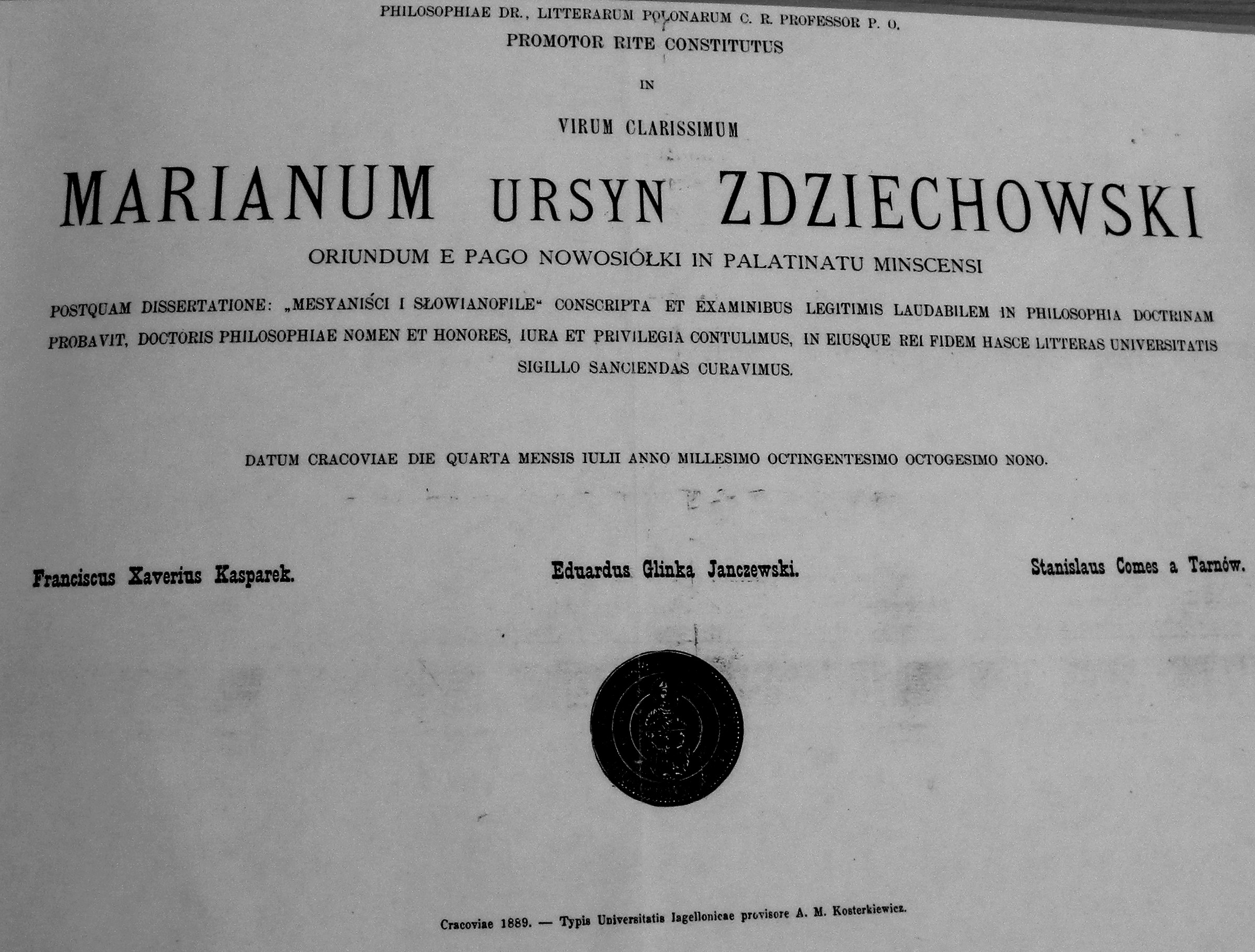 Doctoral Diploma of Marian Zdziechowski from Jagiellonian University in Kraków